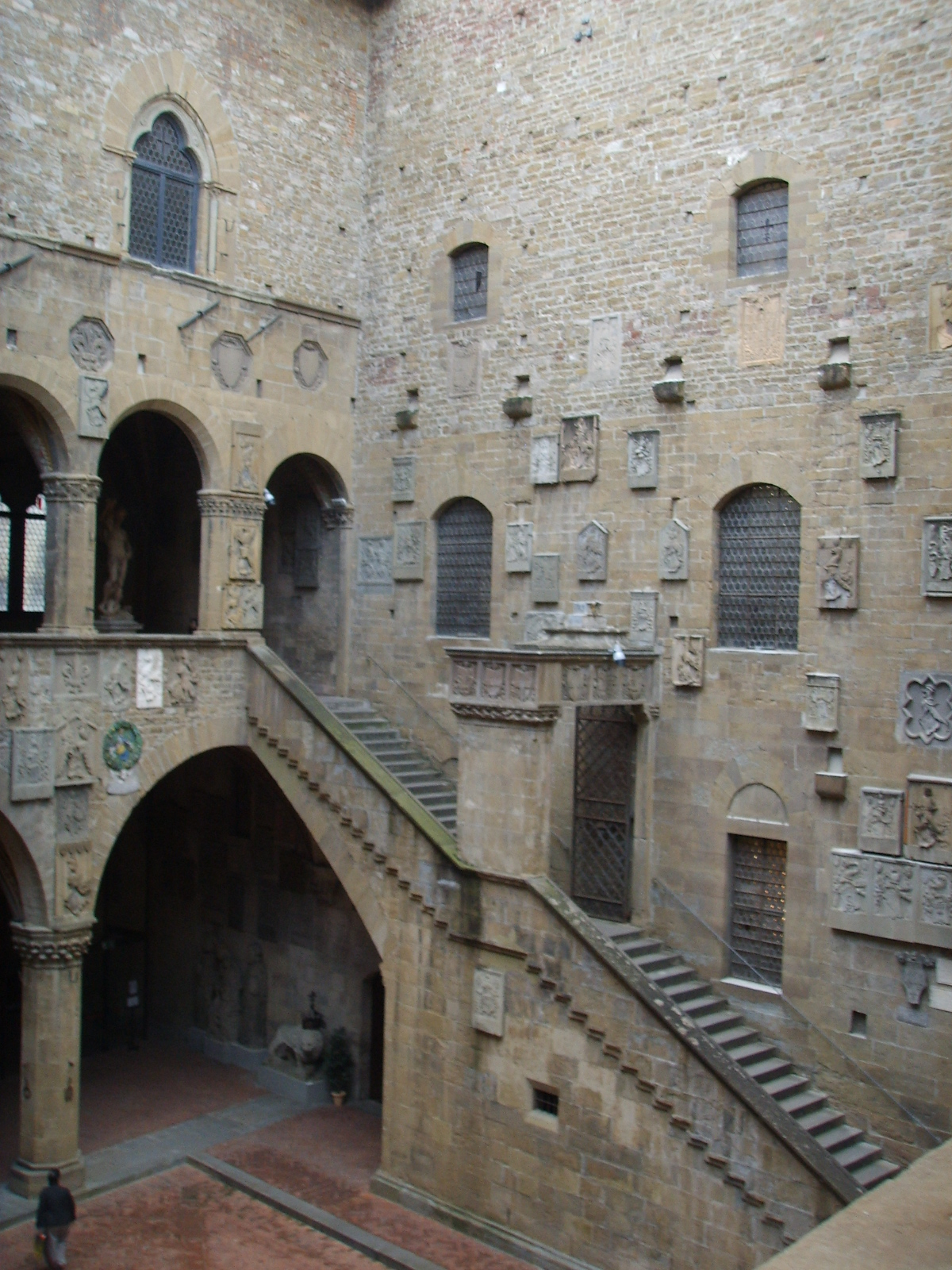 Courtyard of the Palazzo del Bargello in Florence, Italy.